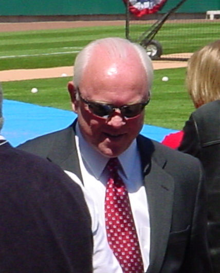 Picture of Walt Jocketty taken on April 10, 2006 at 12:47 pm Central Standard Time before Opening Day 2006 at Busch Stadium in St. Louis, Missouri . Picture taken with a Sony Cybershot digital camera.